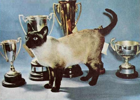 "A champion Seal Point poses with his trophies." Show quality seal point Siamese cat from 1960 or earlier.